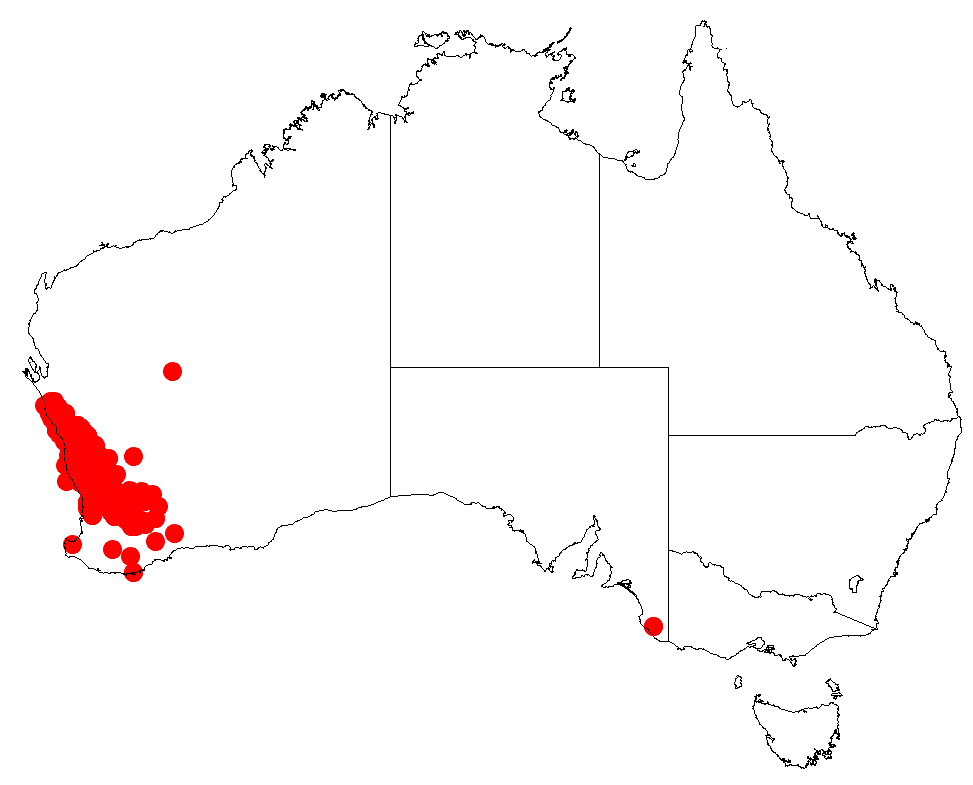 Isopogon divergens Occurrence data downloaded from Australasian Virtual Herbarium on 30 October 2018 from